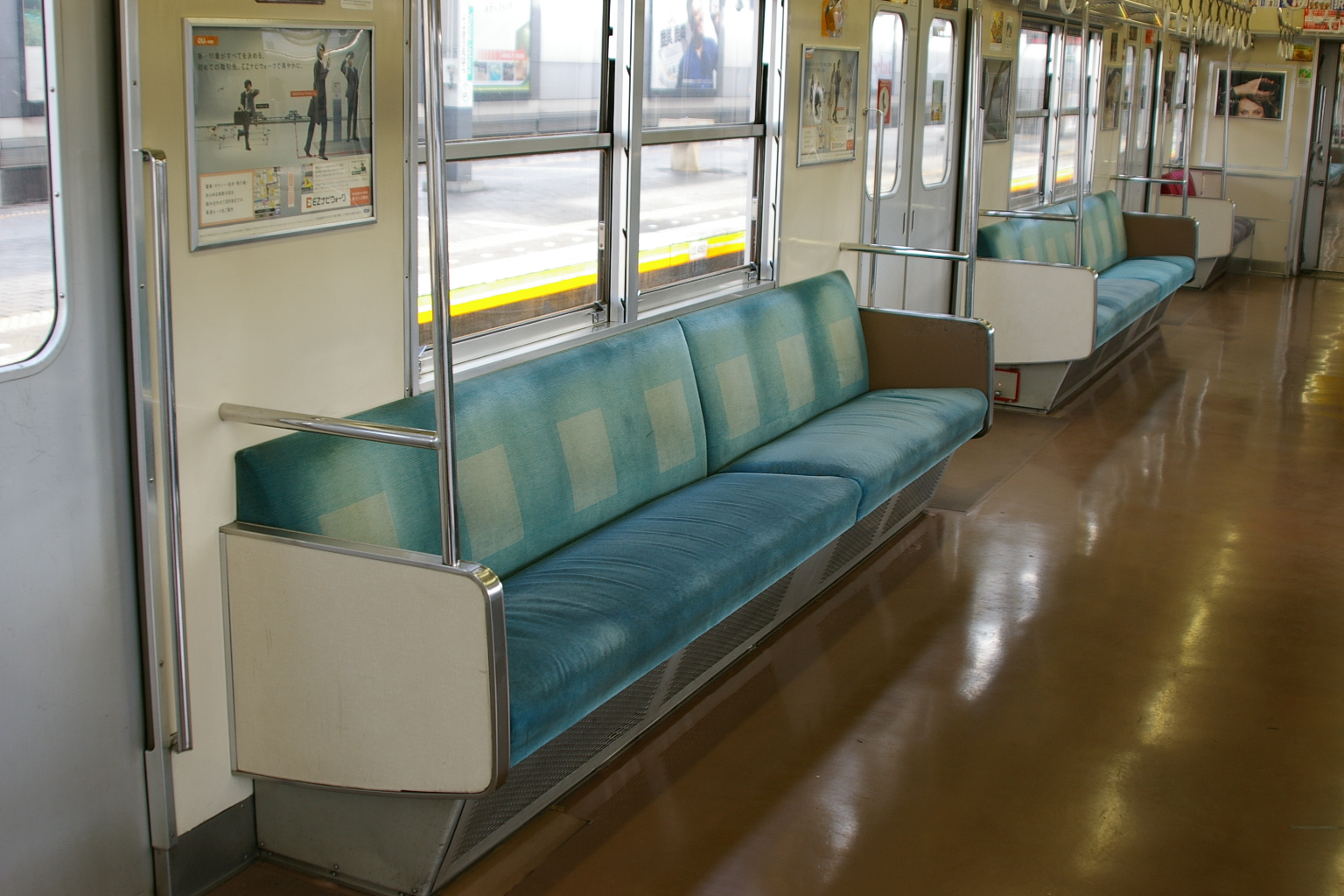 The seats of JNR 203